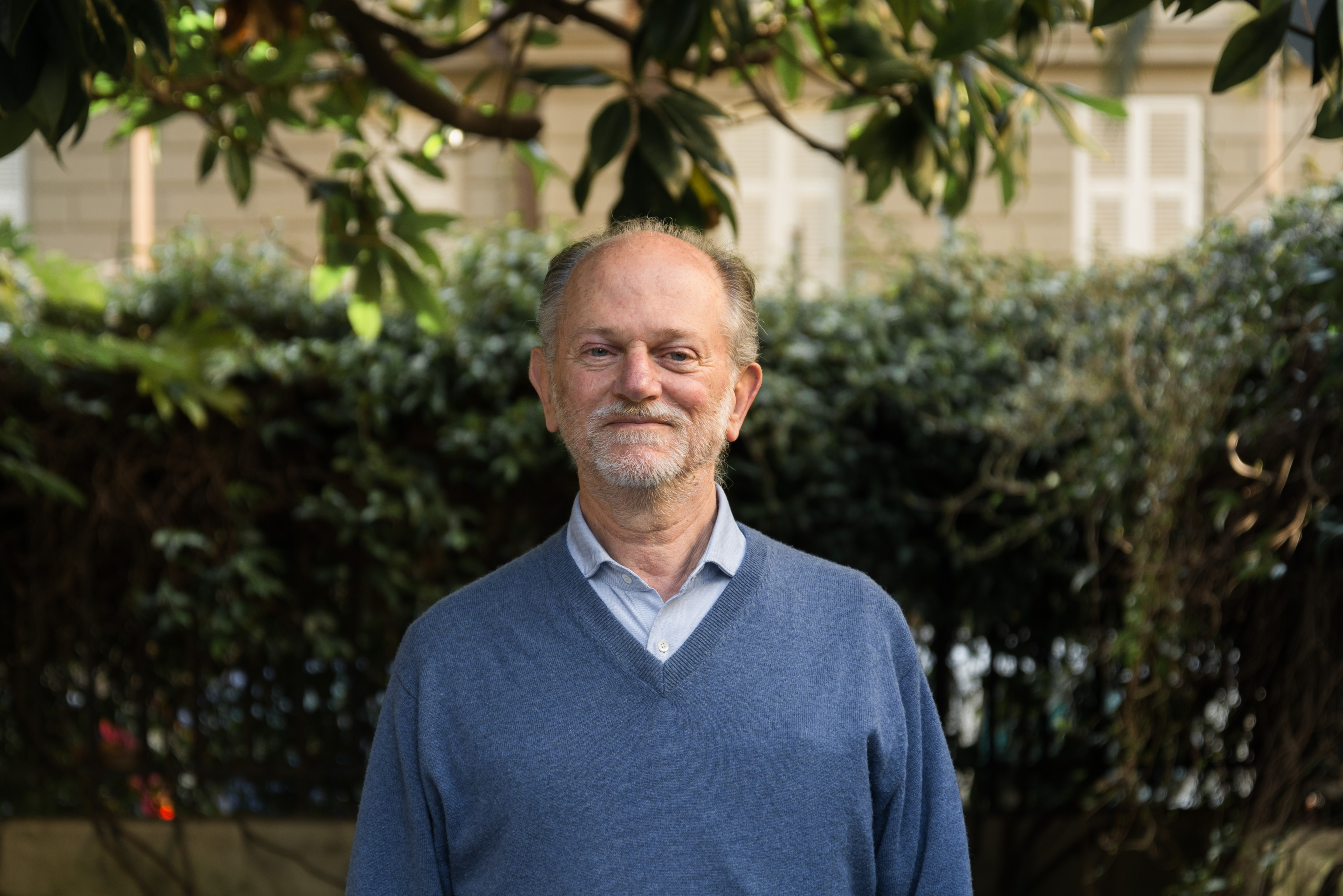 Giuseppe Notarbartolo di Sciara. ECS 2018 Conference, La Spezia